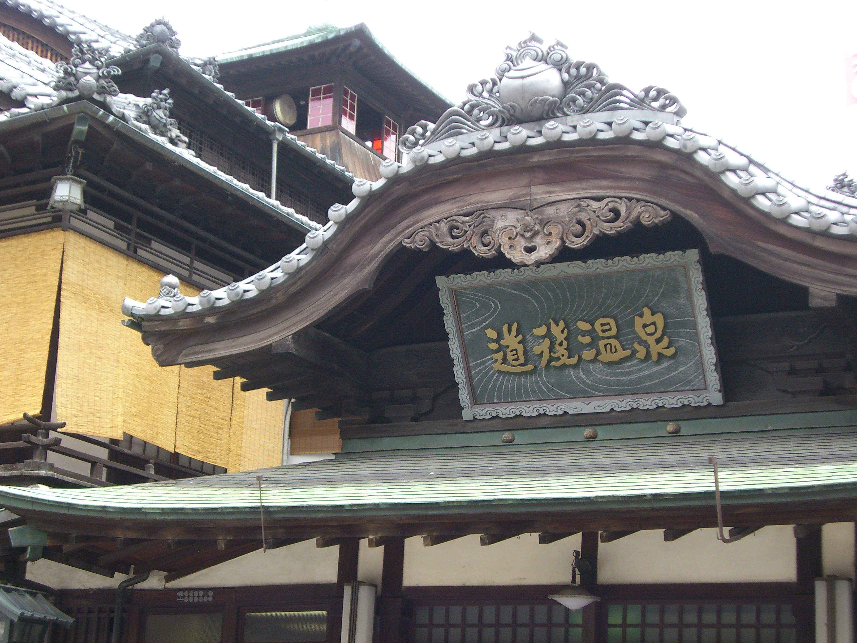 Dogo Hot Spring main building's sign and “Sinrokaku”(room of a Japanese drum ) Ehime, JAPAN